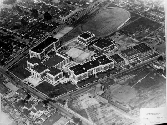 Thomas Jefferson High (Los Angeles) aerial view in 1920